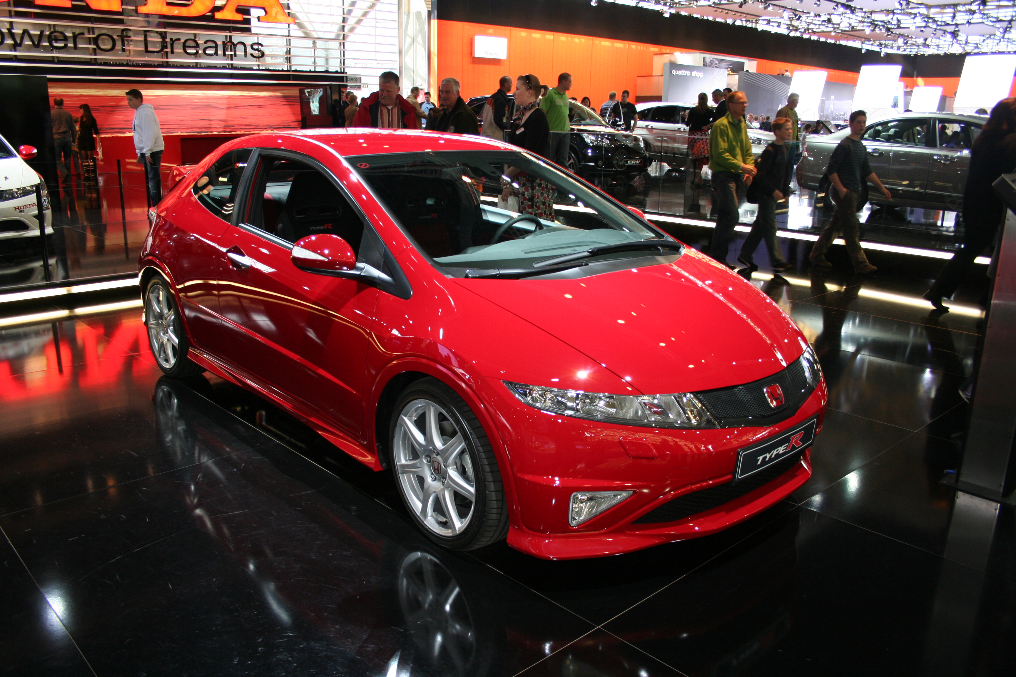 The Honda Civic Type-R on the Amsterdam AutoRAI 2007